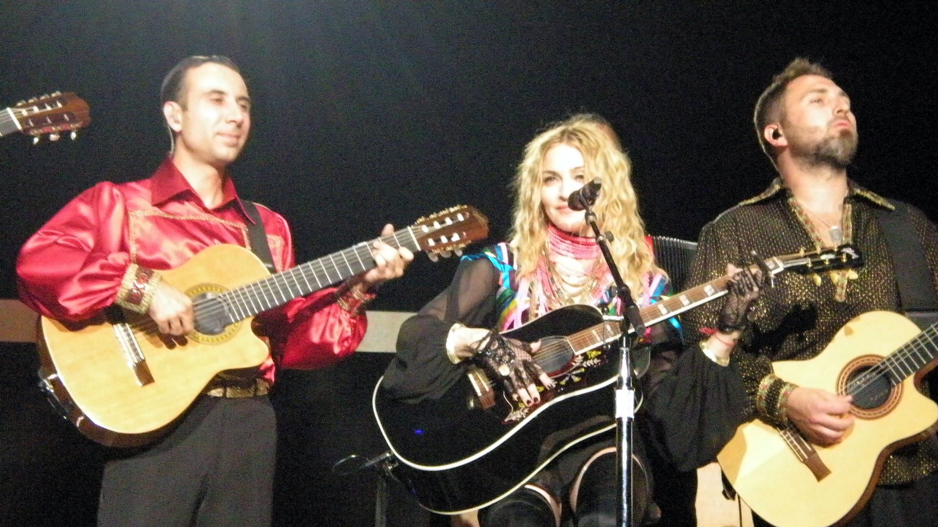 Madonna performs "You Must Love Me" in Sofia